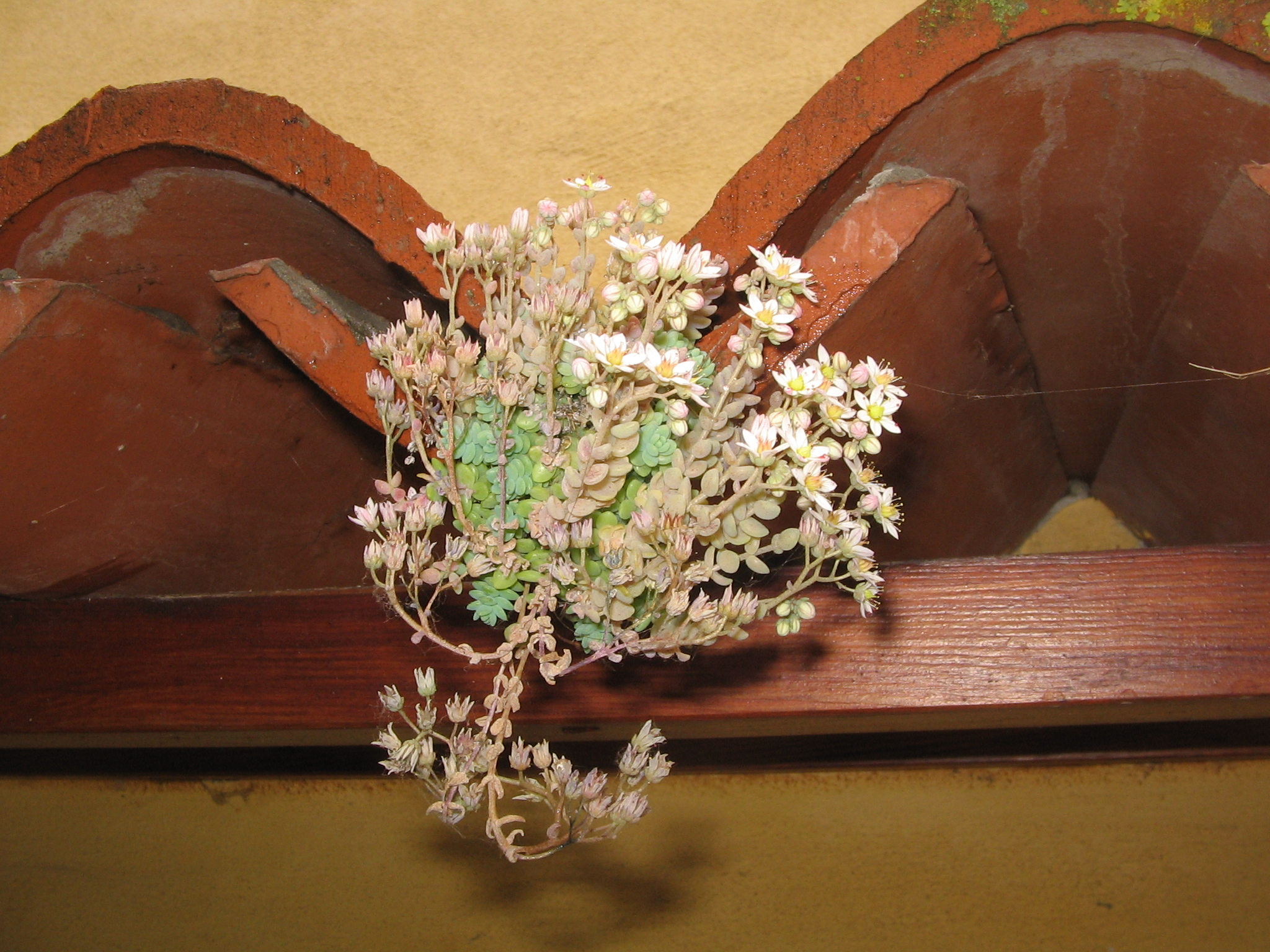 A Sedum dasyphyllum with flowers outside a rural house in Cilento, Southern Italy. The plant grows between some tiles.